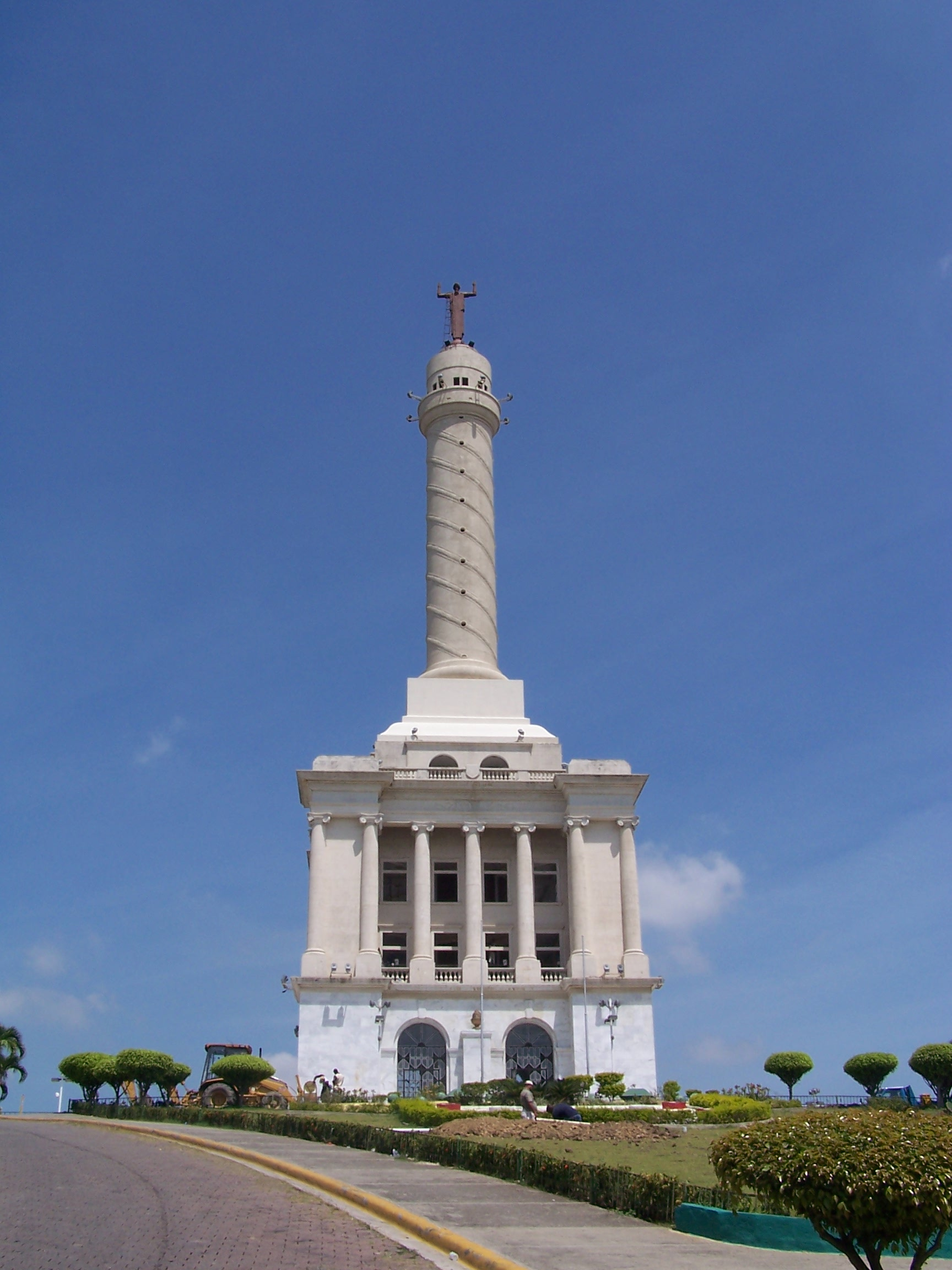 Dominicana, Santiago de los Caballeros - Monument to the Heroes of the Restoriation